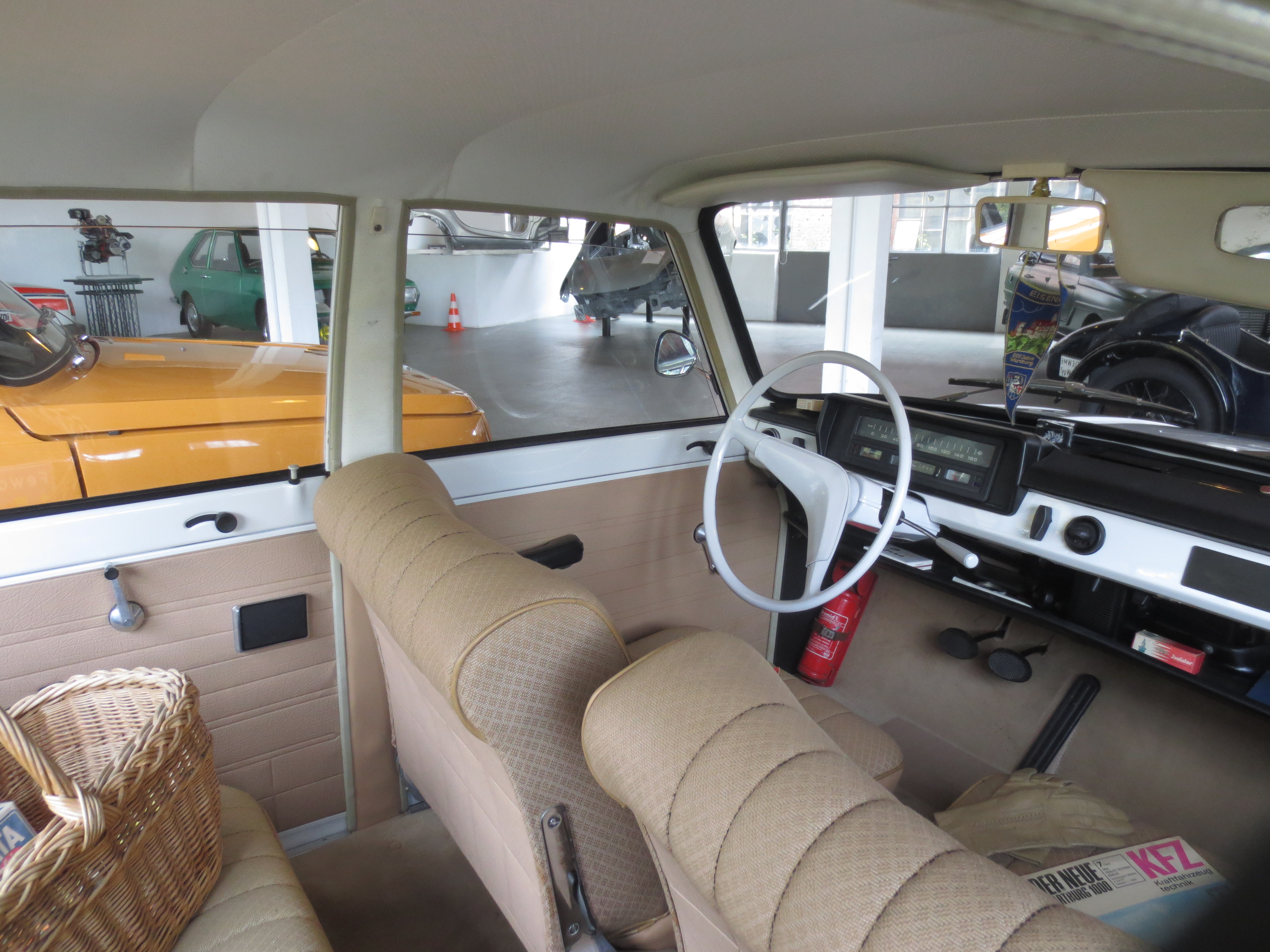 Subject: Wartburg 1000 Typ 353 Author: Luc106 Date:October 11th, 2014 Place/Country: Automobil Welt Eisenach Museum, Eisenach (Deutschland) I release all rights in the public domain. Licensing